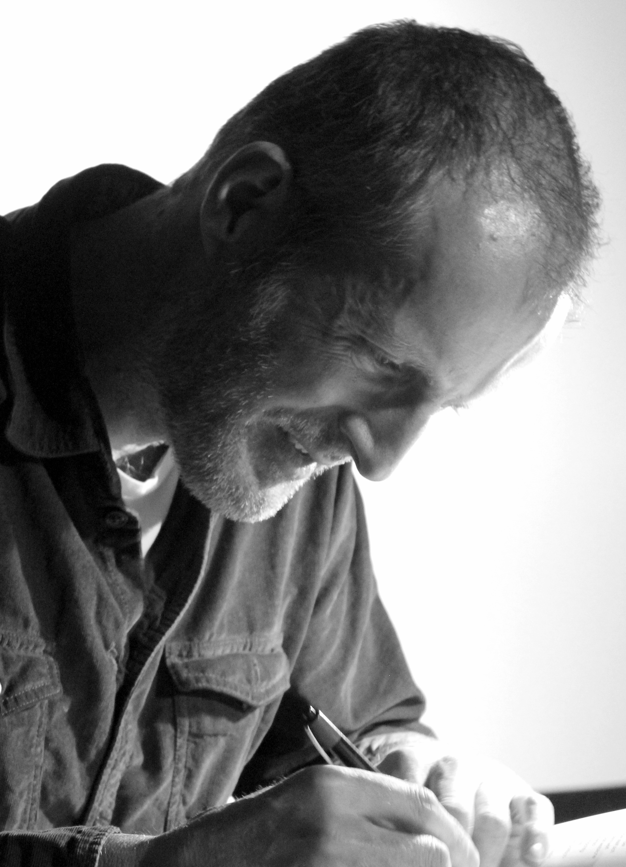 Robert Seethaler